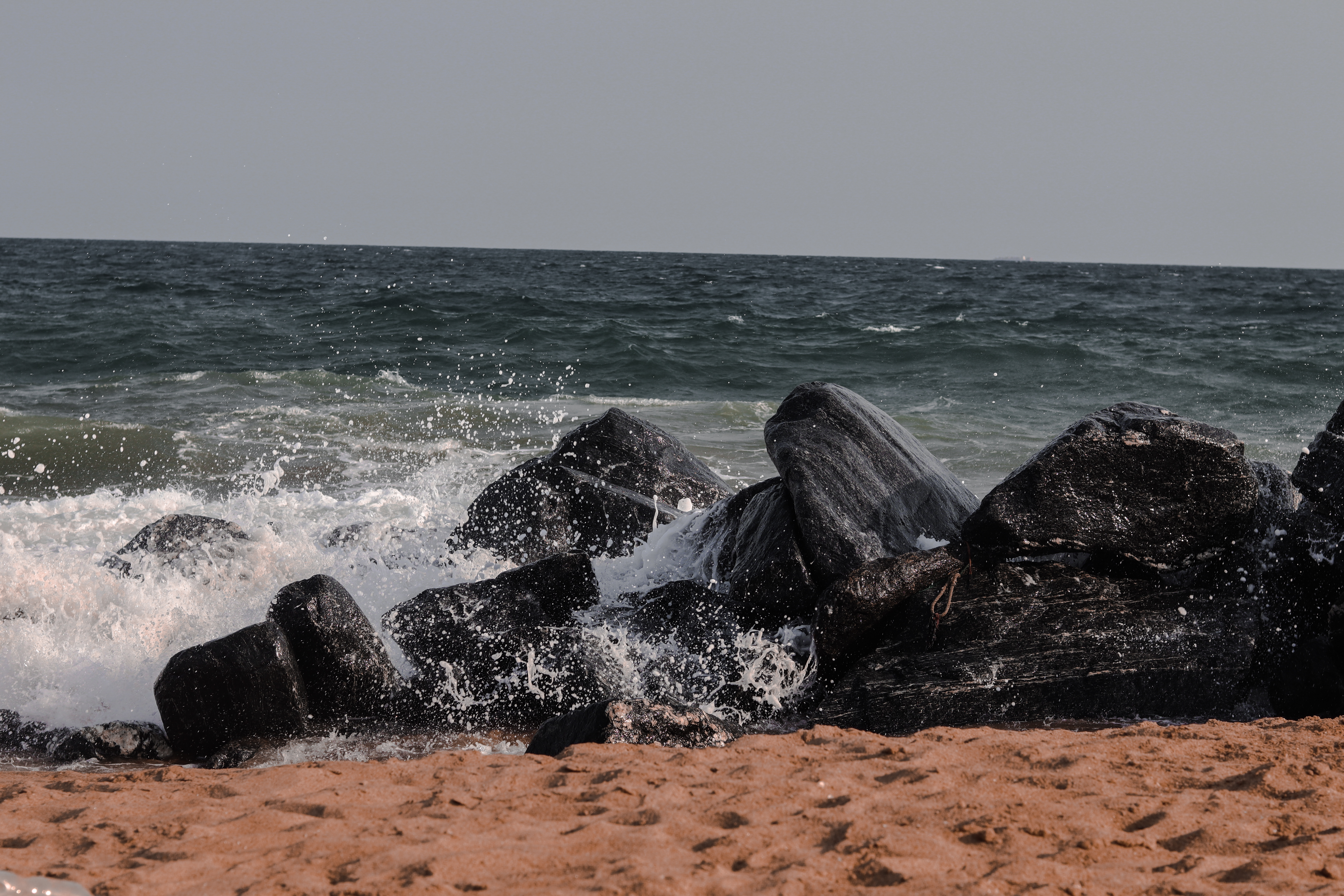 This is an image with the theme "Africa on the Move or Transport" from: Togo